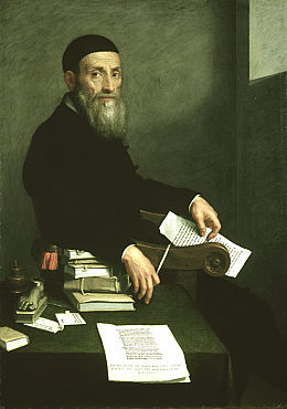 Portrait of Giovanni Bressani (1489-1560)